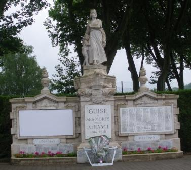 The monument aux morts (war memorial) of Guise which lies on the D1029 east from Saint-Quentin.The monument aux morts features a work by André Joseph Allar (1845-1926). A woman, meant to represent Guise, comforts a child. Allar was born in Toulon and won the Prix de Rome in 1869. He became a member of the Académie des Beaux-Arts in 1905. Amongst his works are "Hécube découvrant le cadavre de Polydore" in the Musée des Beaux-Arts in Marseille, the "Monument de la Fédération" on the place de la République in Toulon,"Sainte Madeleine”on the facade of the Cathedral de la Major in Marseille, the “Monument du Centenaire“ in Nice and several other works in Toulon and Marseille.